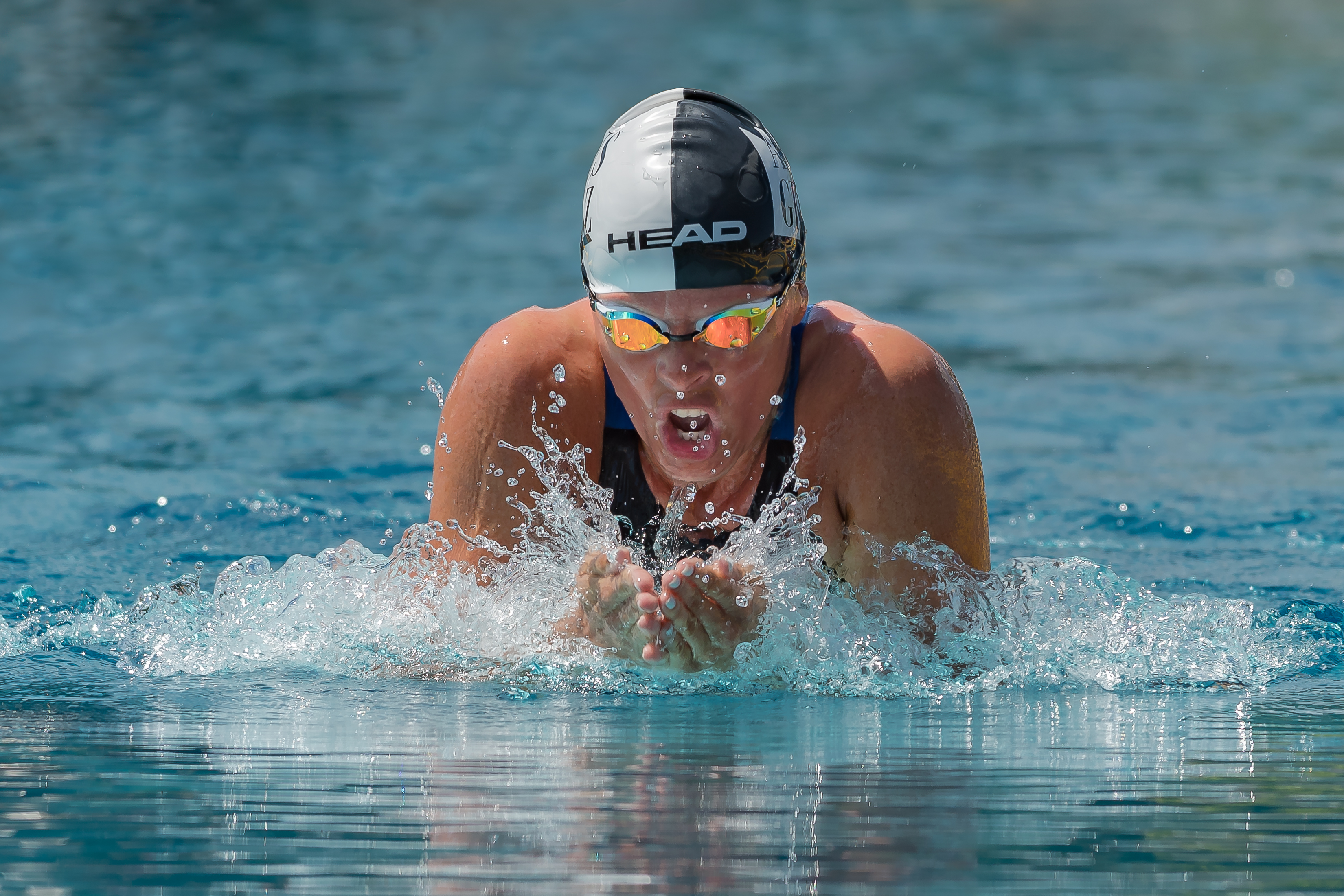 40. Schwimmzonen- und Mastersmeeting Enns 2017 / 100 m Breaststroke / MAYERHOFER Susanne / ATUS Graz, Austria